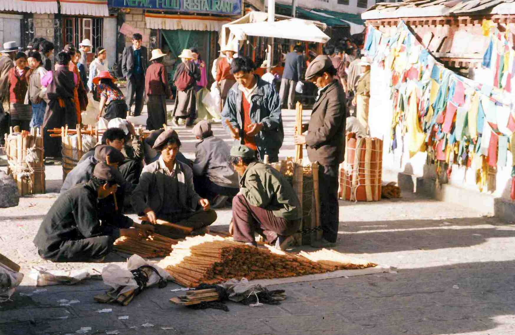 Shopping in the Barkhor